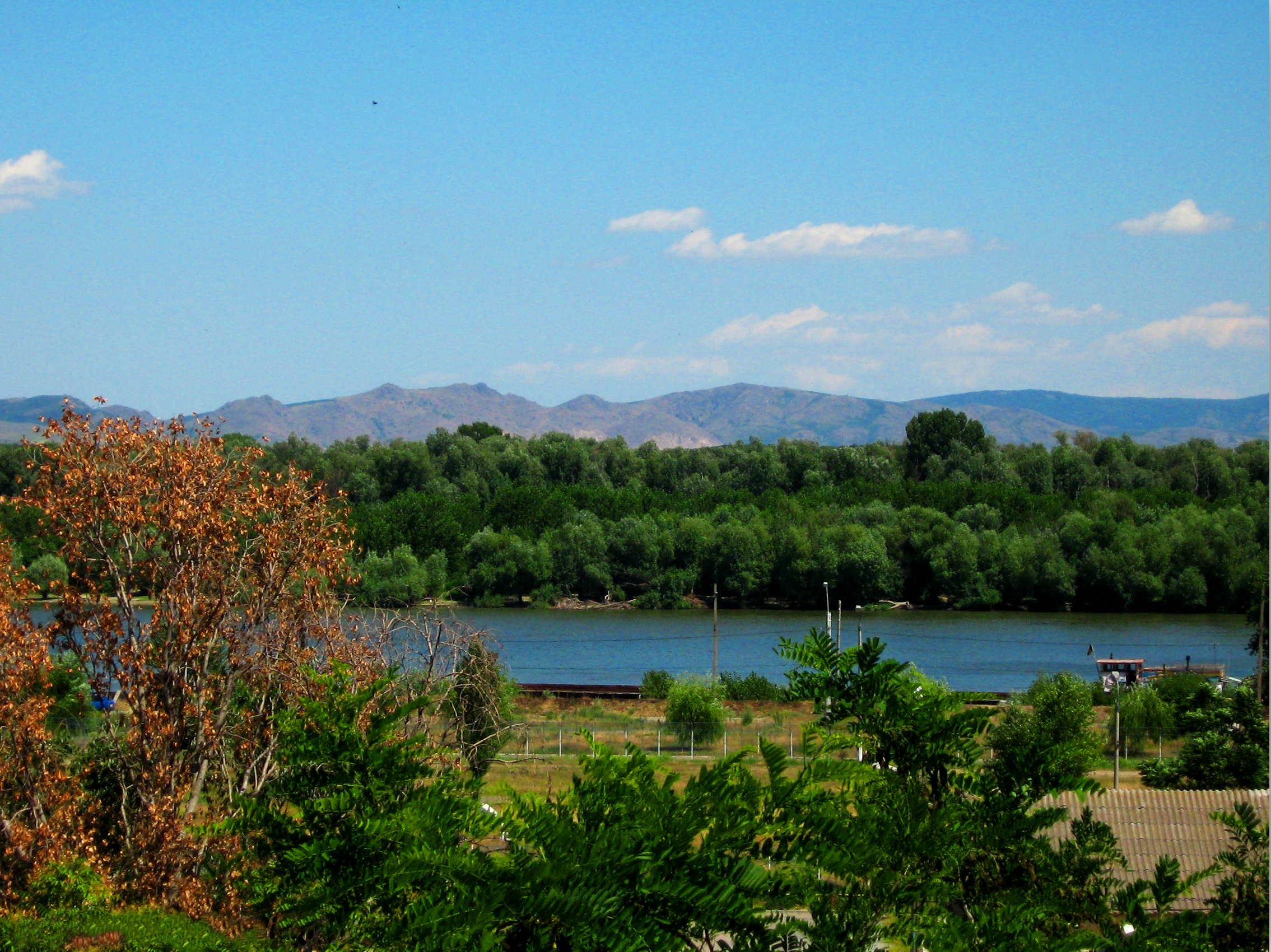 Danube at Braila -- Macin mountains in the background.